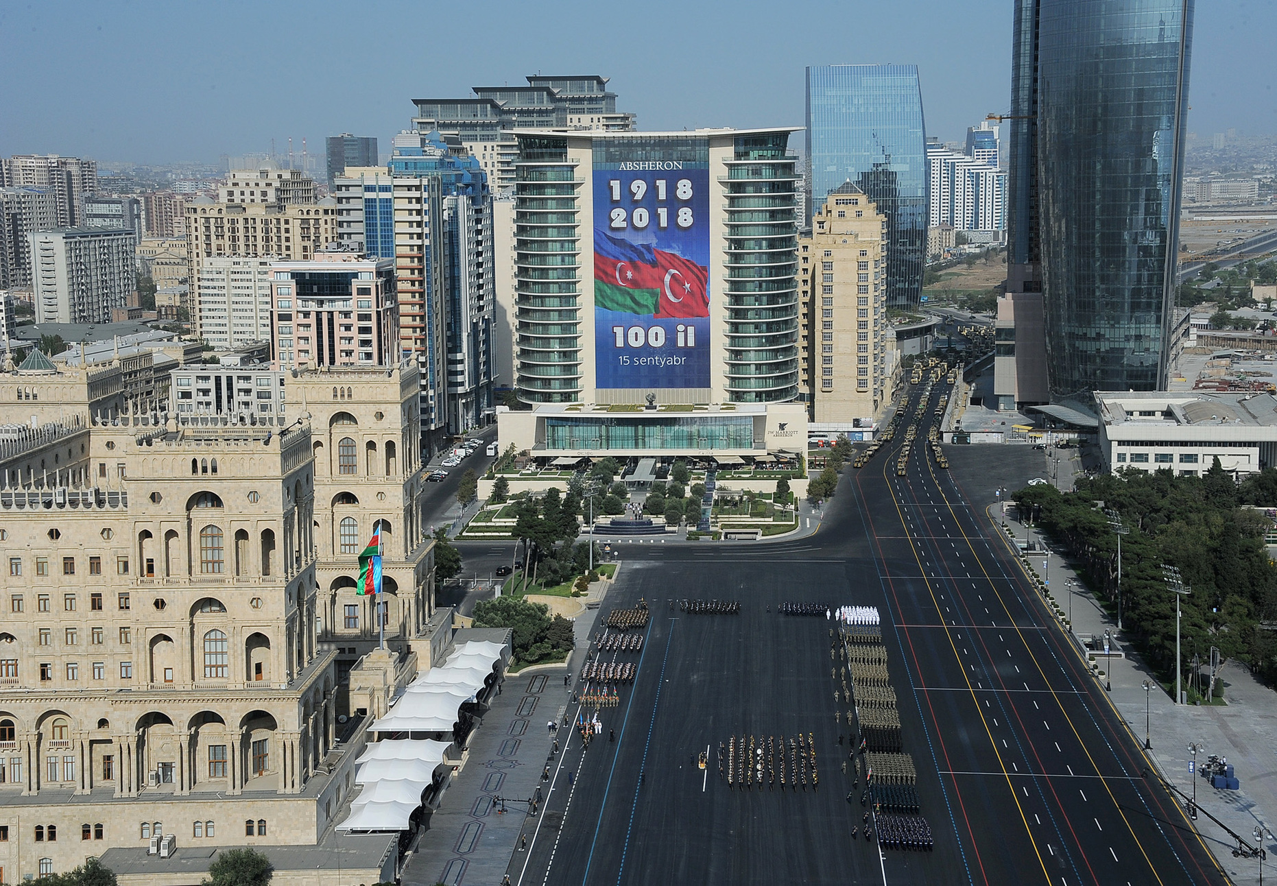 Ilham Aliyev and Recep Tayyip Erdogan attended the parade dedicated to 100th anniversary of liberation of Baku